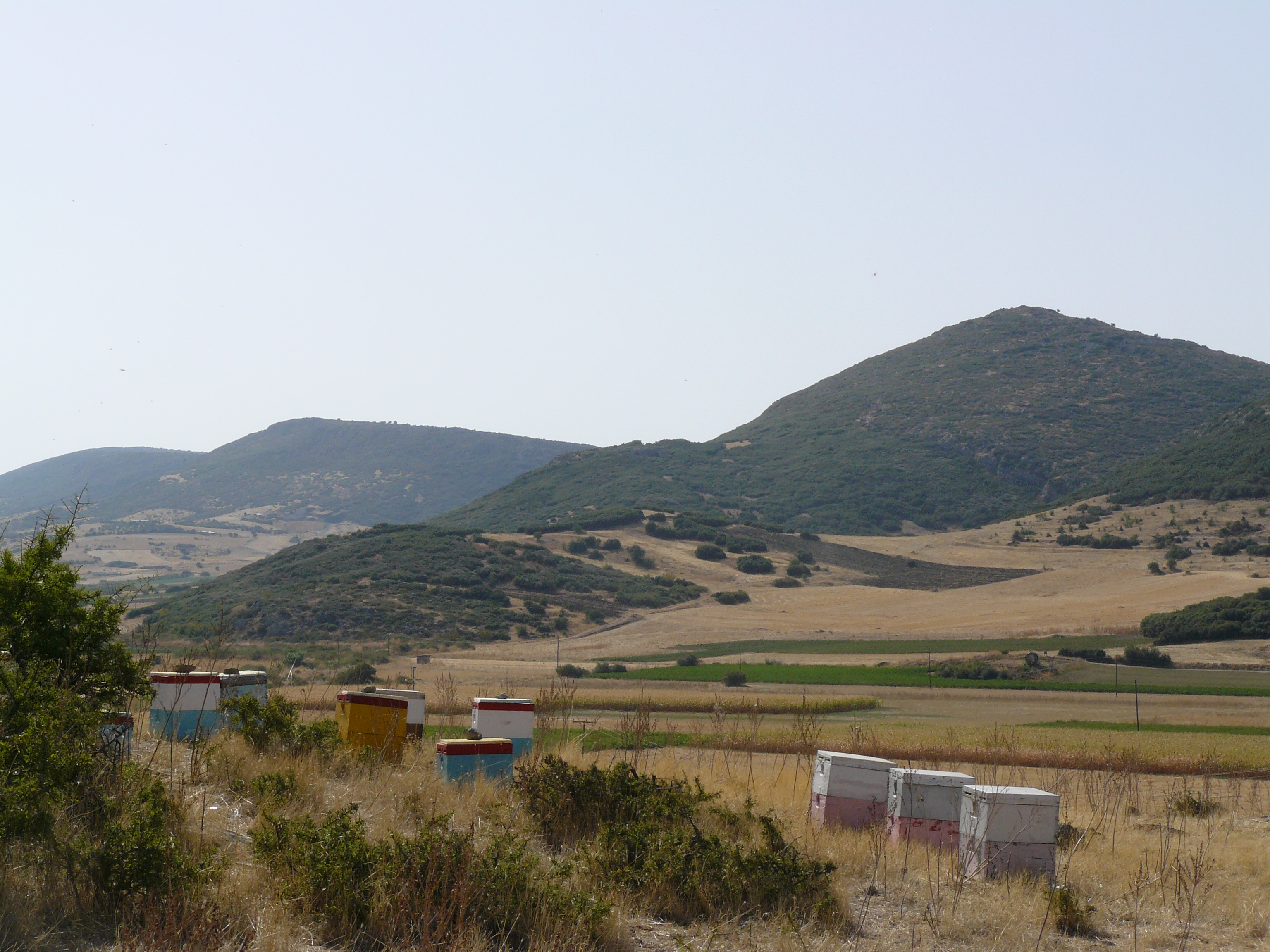 View from Hyampolis to the south-east on the site of Abae. The acropolis wason the summit of the mountain. The surrounding wall leads to the ledge to the north. On the hill in the foreground there was a sanctuary and to the west of it there were a cemetary which dates to the 4th century BC.